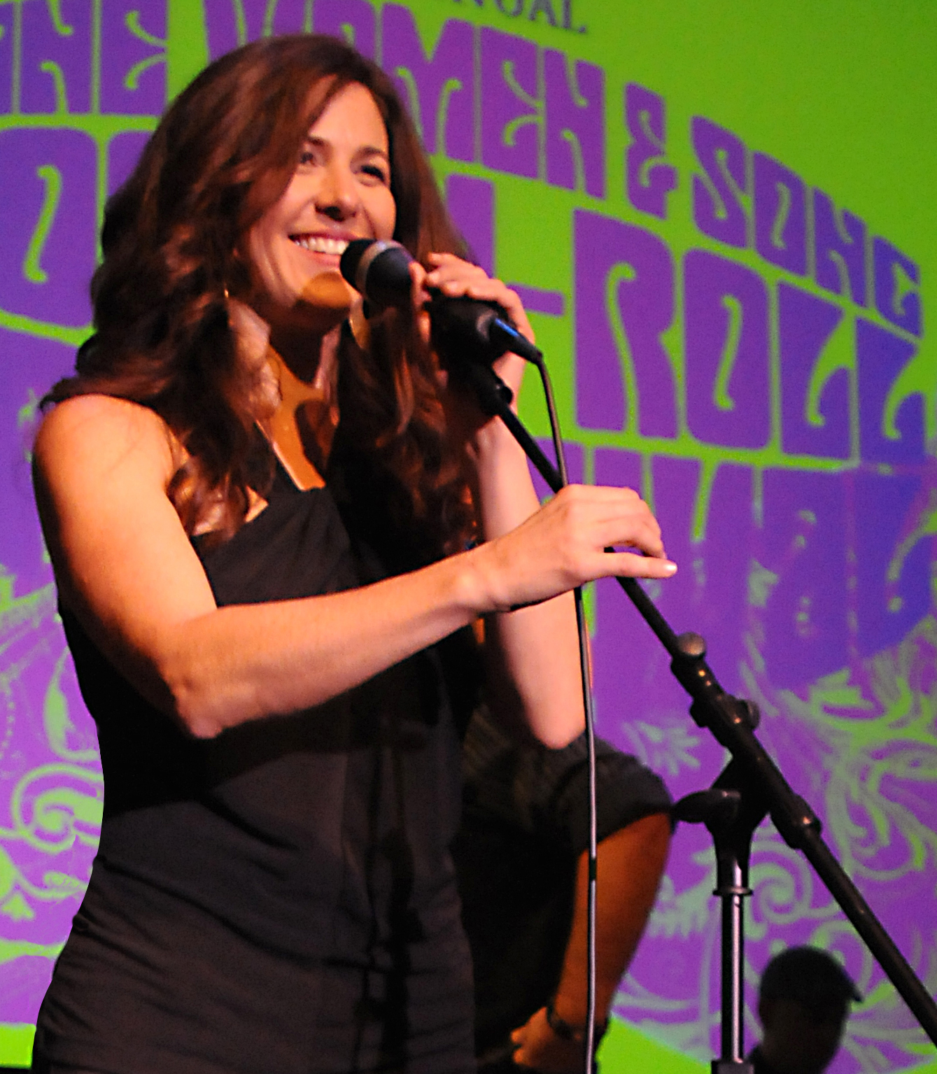 Susan Zelinsky on stage with a microphone in her hand